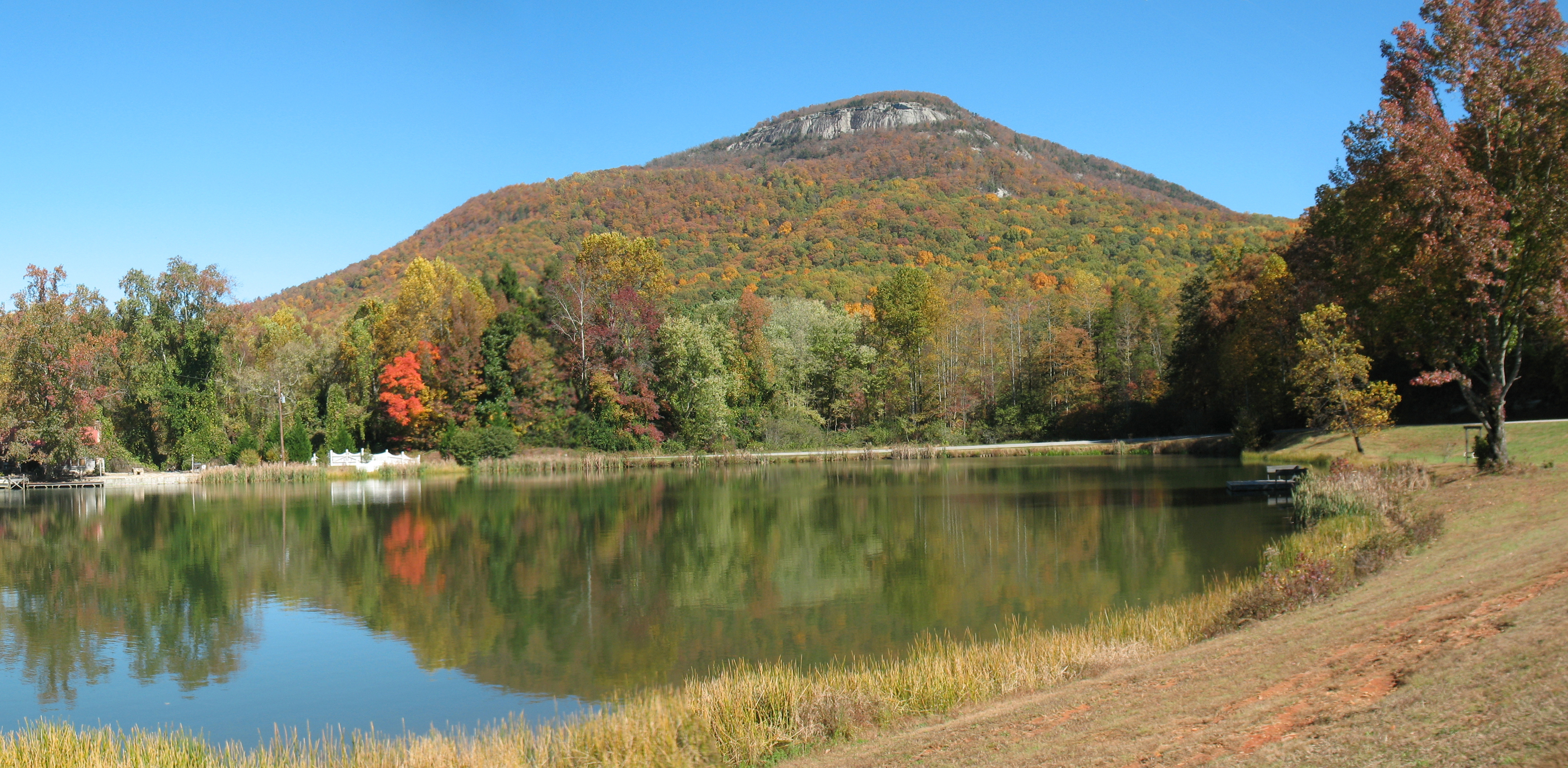 Photo of Mount Yonah (Yonah Mountain) on October 28, 2008 from Chambers Lake.